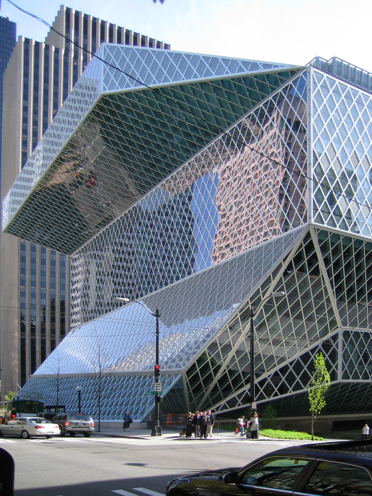 Seattle Central Library as seen from 5th Avenue in downtown Seattle, Washington, USA. It was designed by architect Rem Koolhaas.